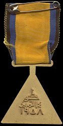 back medal